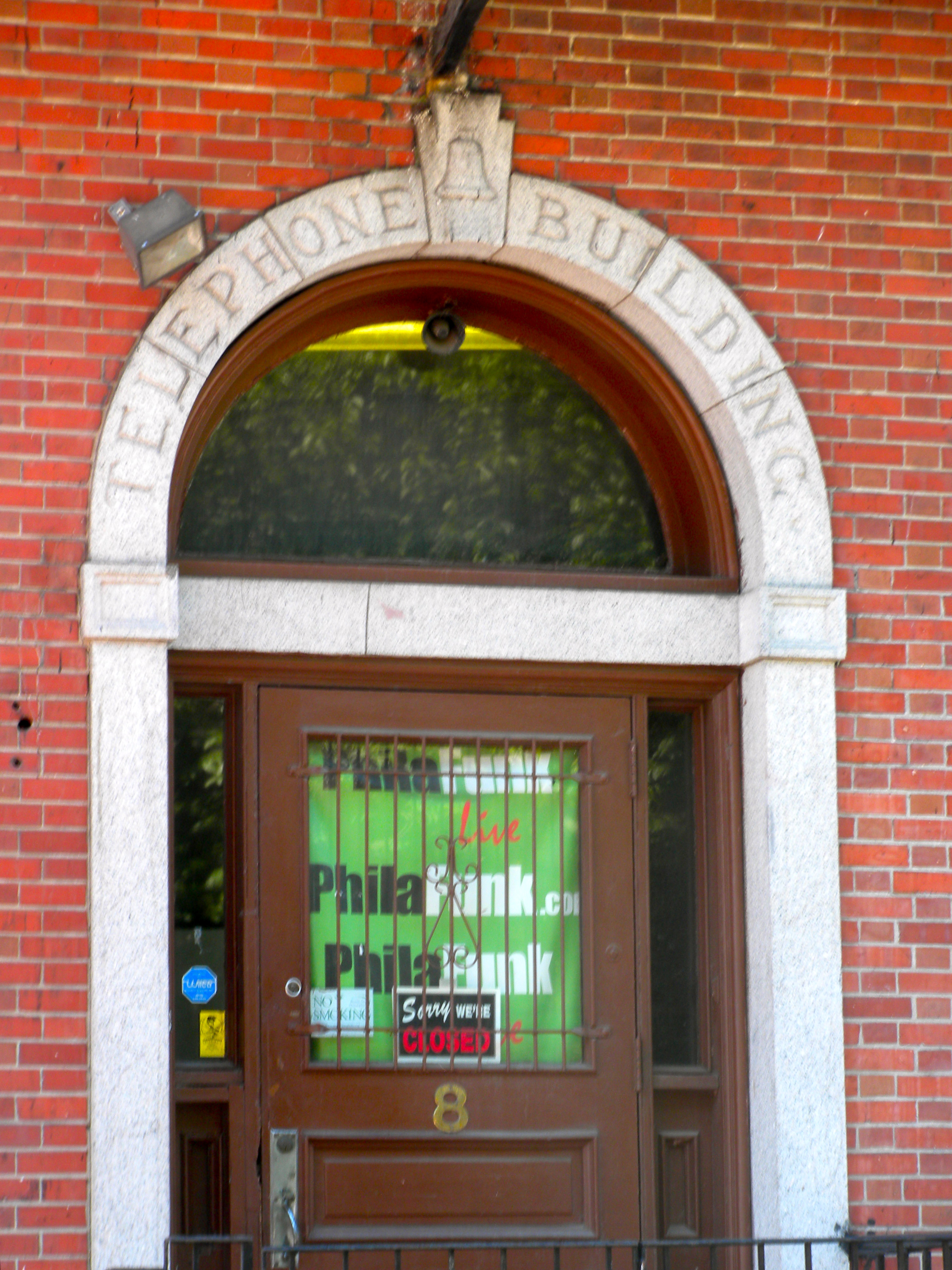 Bell Telephone Exchange Building on NRHP since March 20, 2002. At 8–12 North Preston Street in Powelton Village neighborhood of west Philadelphia, PA. Built about 1900, operated as a switchboard center until 1928, without automatic dialing (everything went thru the operator). Housed light industry thereafter.